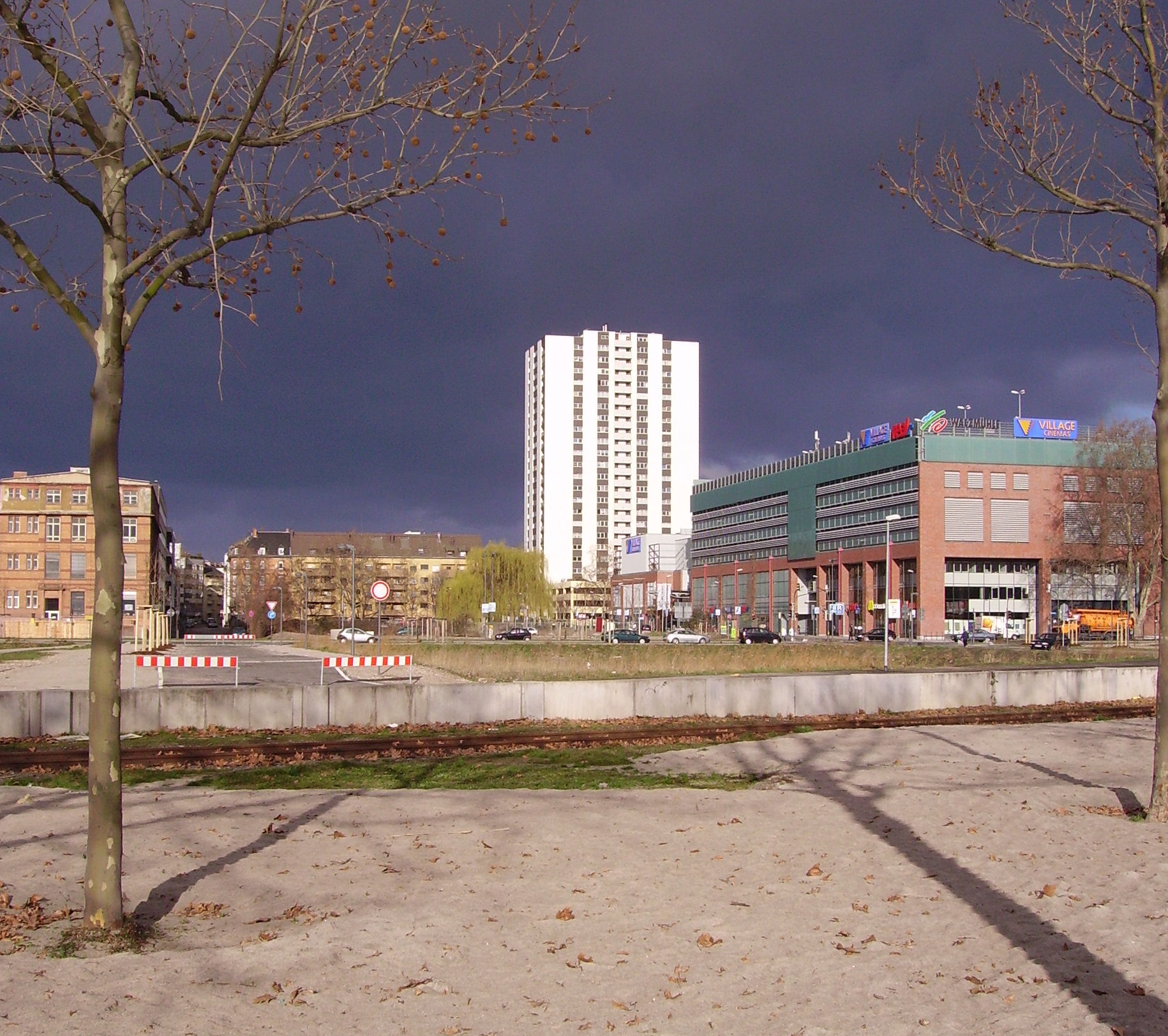 in Ludwigshafen, Germany